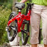 picture of a melon bicycle folded and being carried